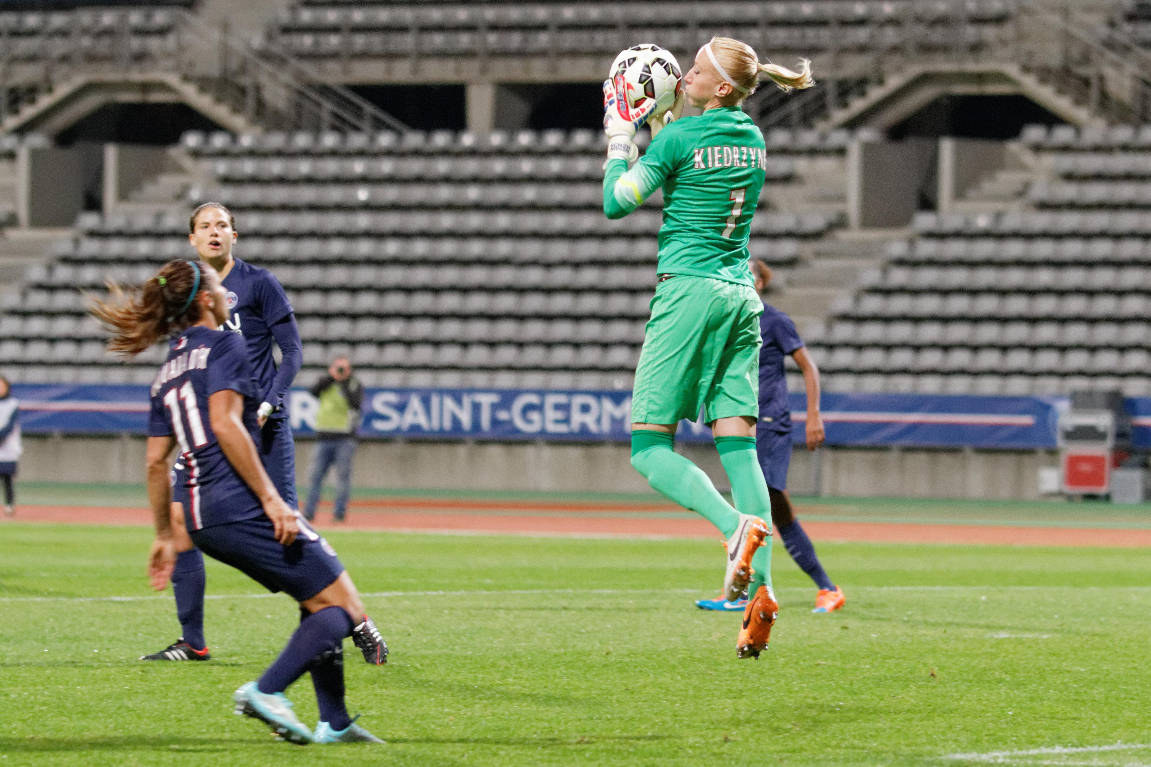 UEFA Women's Champions League, PSG - Twente, 15 October 2014